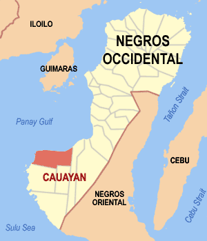 Map of Negros Occidental showing the location of Cauayan